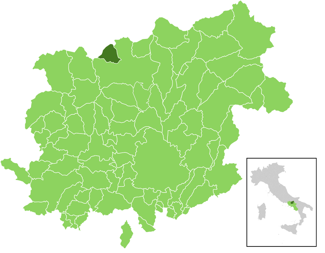 Map of the Italien Town Sassinoro (Province Benevento, Campania)